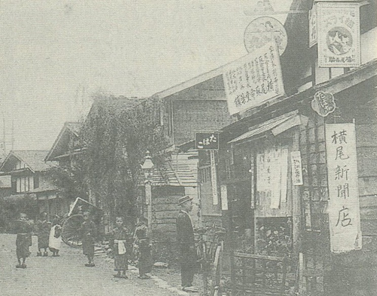 Yasuzuka center area in about 1912